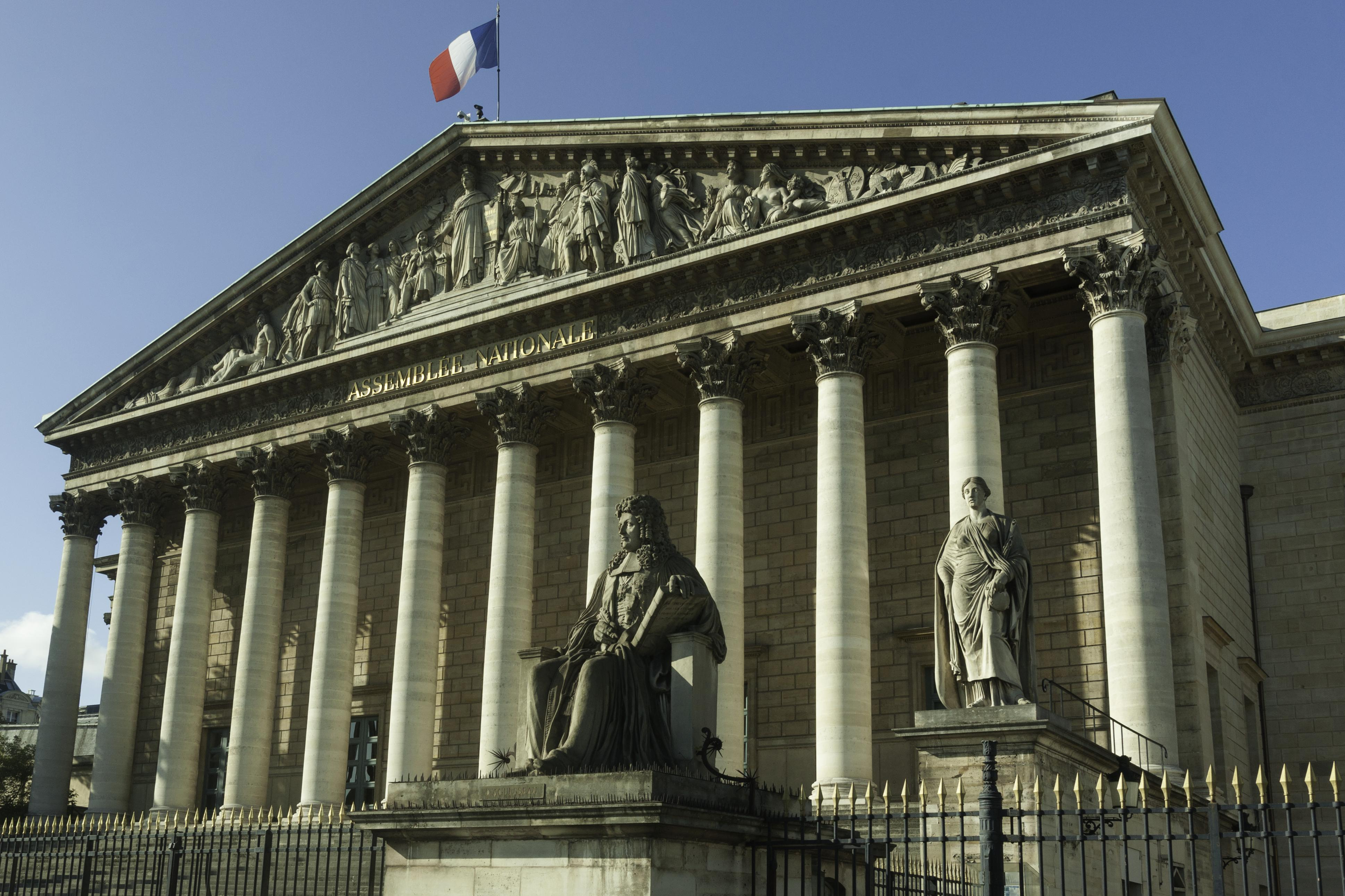 North facade of the Palais Bourbon, Paris.